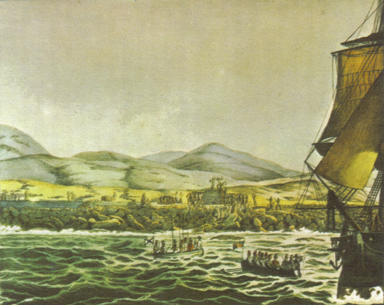 The russian "Rurik" sets anchor near Easter Island on its way through the pacific ocean. Drawing by Louis Choris in early 1816.